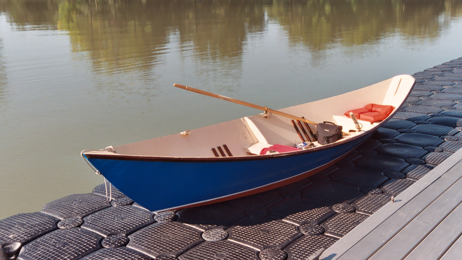 An example of a Phil Bolger-designed Gloucester Light Dory, on the float stage of the Genesee Waterways Center in Rochester, NY, in September 2003. Photo by Susan Davis.